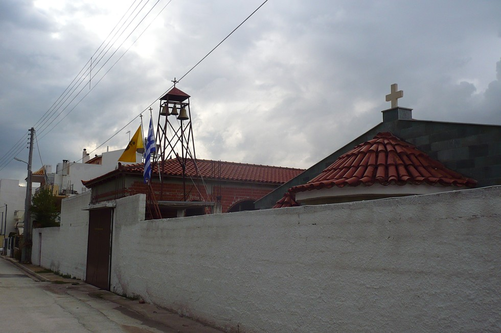 Medieval church of Agios Nicolaos